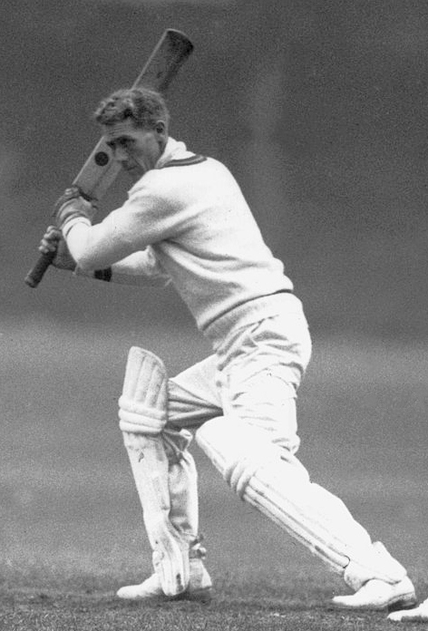 circa 1930: South African cricketer Cyril Vincent (1902 - 1968) at the crease.